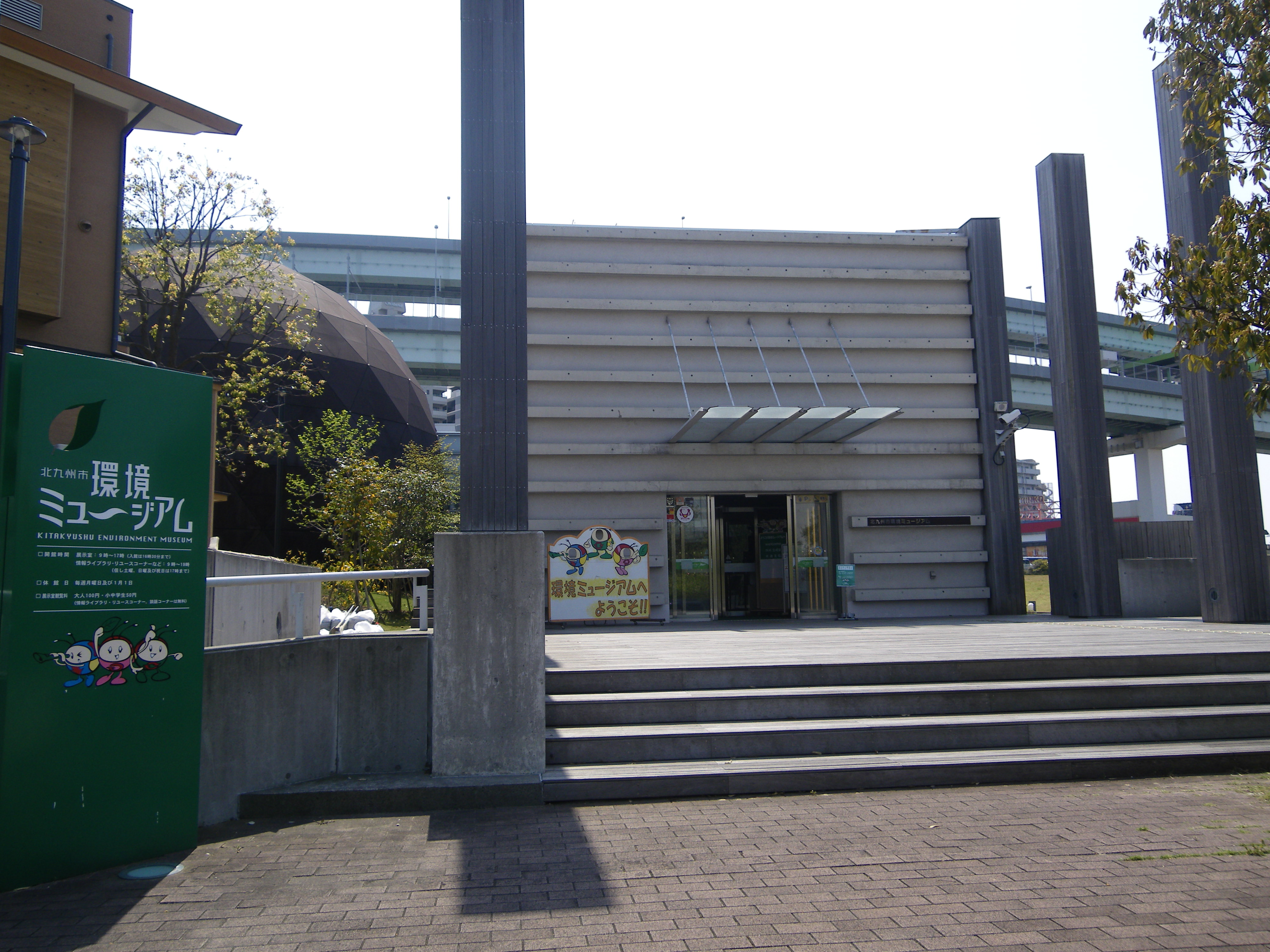 Kitakyushu Environment Museum